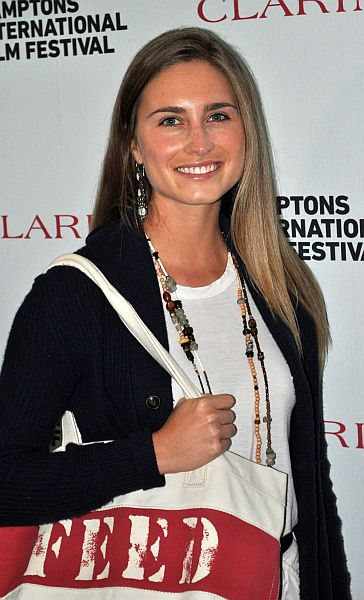 Lauren Bush attends the 19th Annual Hamptons International Film Festival FEED Benefit Party on October 15, 2011 at Nick & Toni's Restaurant in East Hampton, New York. (Photo © Nick Stepowyj)